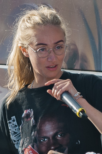 Silvana Imam performing on Skeppsholmen in Stockholm, Sweden, on July 28, 2015